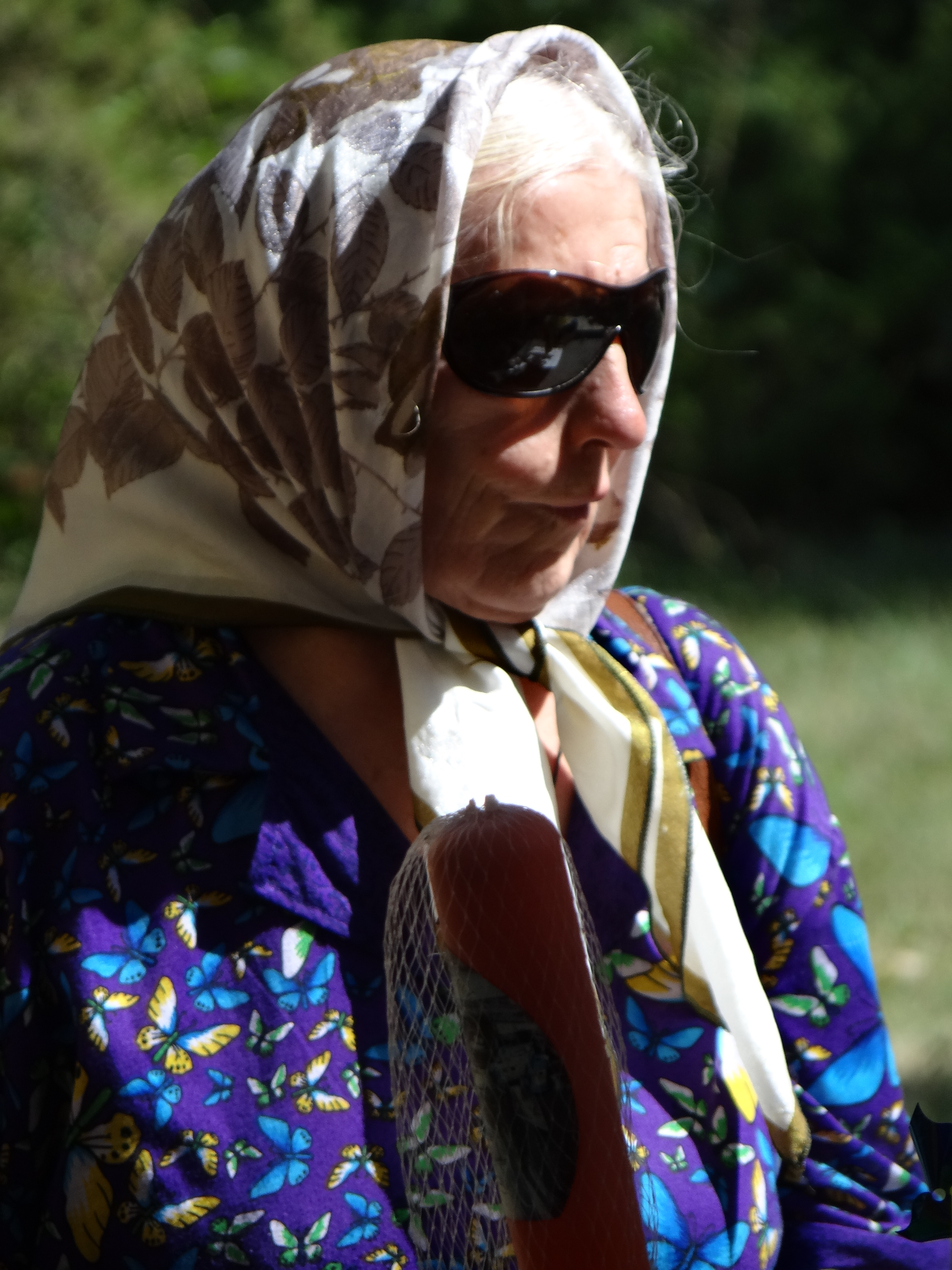 Elderly Woman in Park - Tiraspol - Transnistria